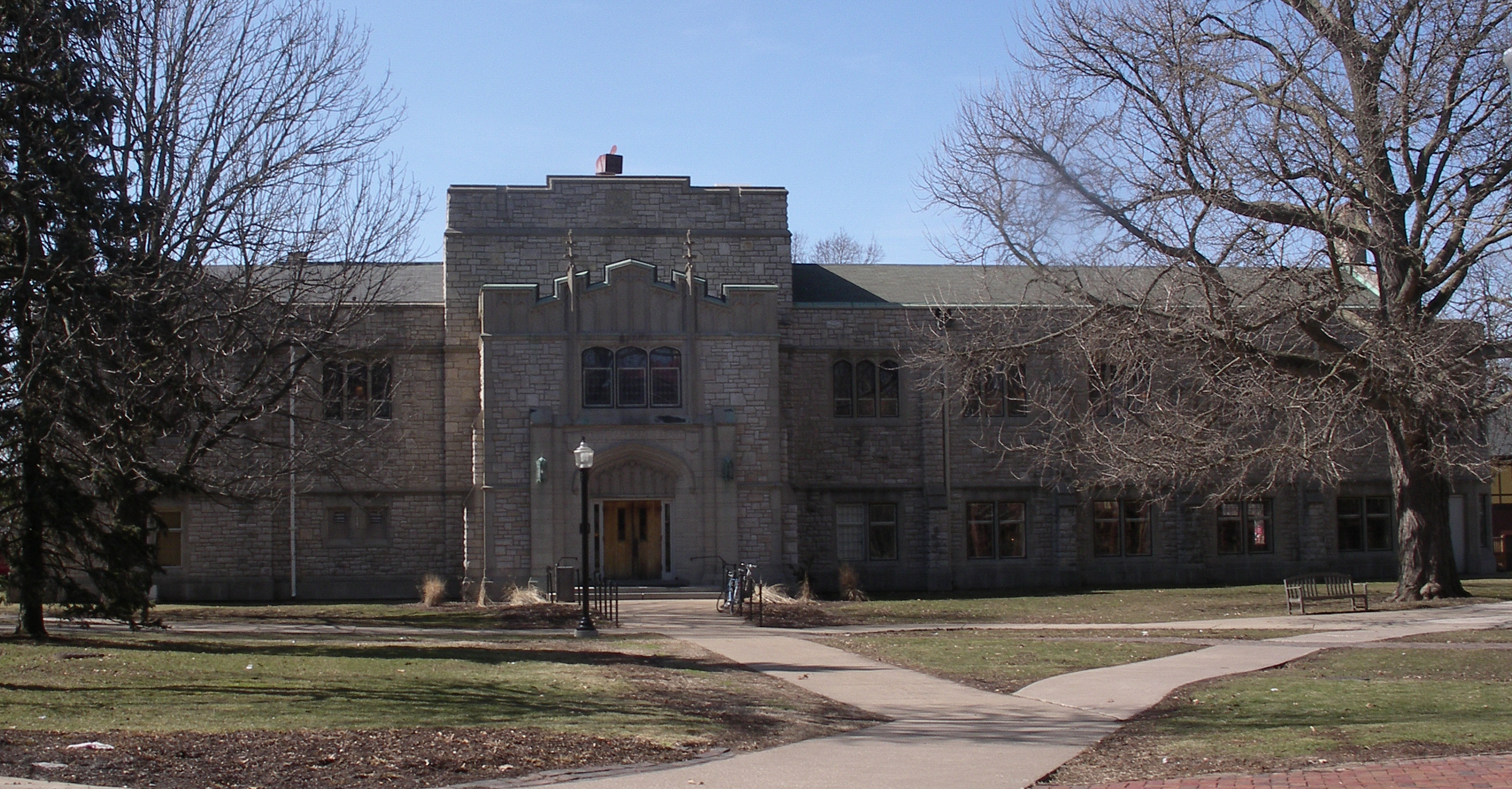 Front entrance to Knox College's Henry M. Seymour Library